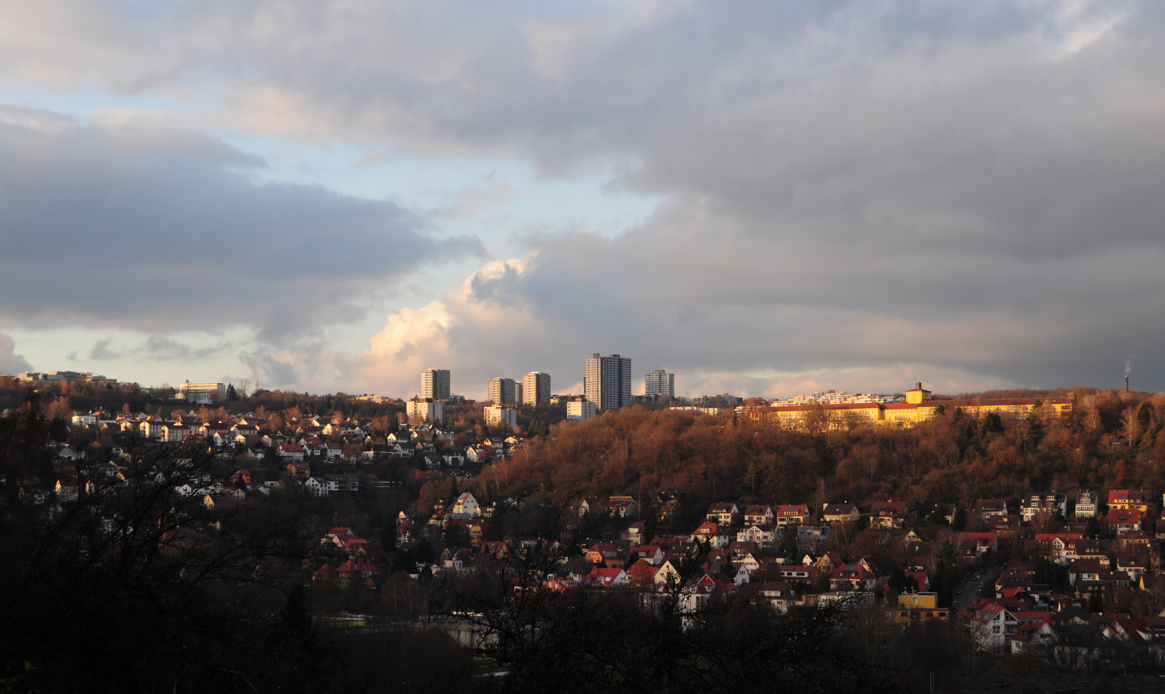 Tübingen in late autumn (Waldhäuser Ost campus and university complex at Sand are seen in background)